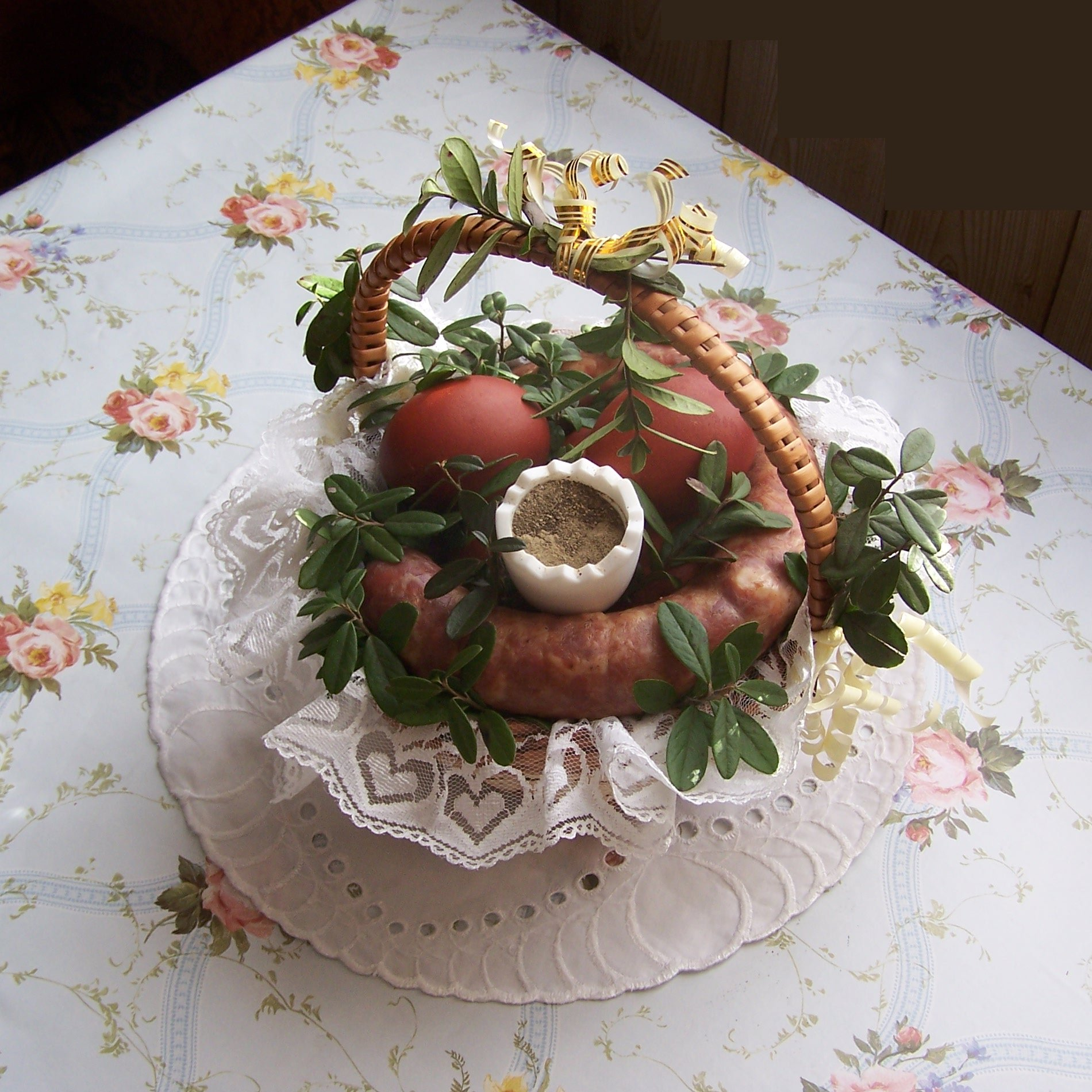 traditional Polish custom of blessing food on Holy Saturday. This święconka basket was made in Ćwikły-Rupie (Podlasie voivodship) for Easter 2006 and contains: kielbasa, boiled eggs (coloured with onion), salt, pepper and bread. Decorated with bilberry leaves. Blessed food is eaten on Easter breakfast.